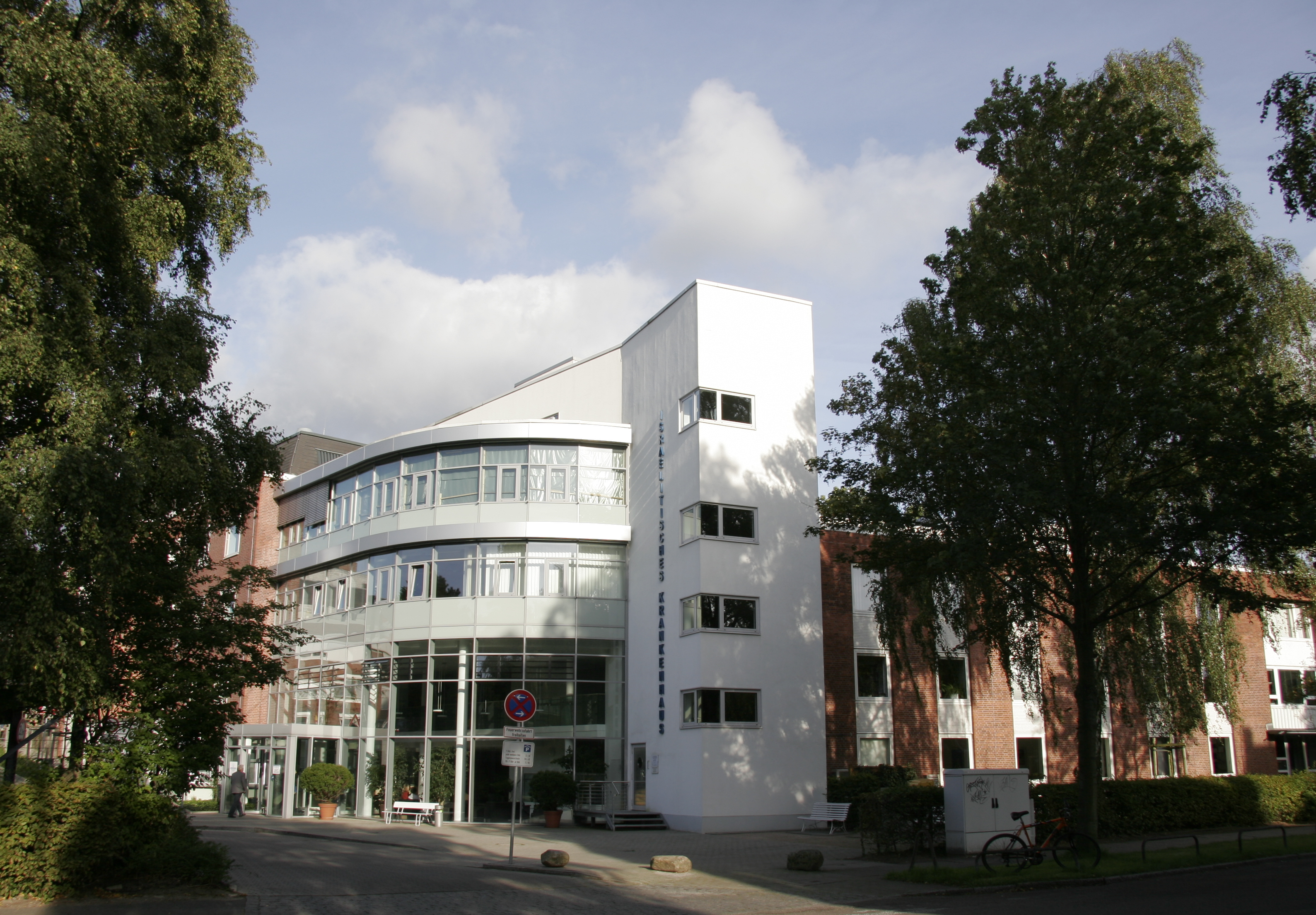 Outside View of Israelitisches Krankenhaus in Hamburg, Germany